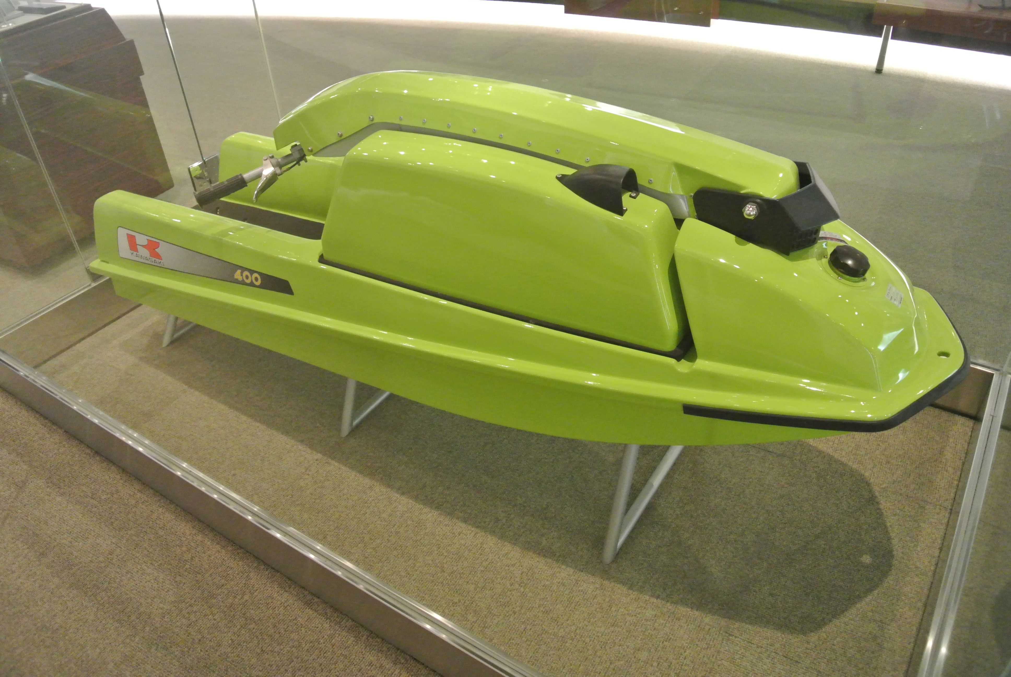 1975 Kawasaki Jetski first model in the Kawasaki good times world, kobe.